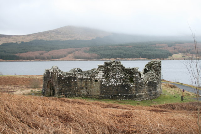 Remains of Loch Doon castle, as relocated today The remains of Loch Doon castle were relocated to the present location; originally built on a rocky island which was submerged when the loch's level was raised by the building of a dam at the north end.